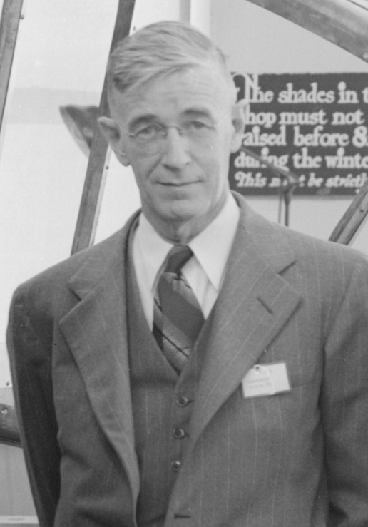 From left to right: Donald Cooksey, Robert Sproul, and Ernest Orlando Lawrence. Photo taken 3/19/1943. Principal Investigator/Project: Analog Conversion Project